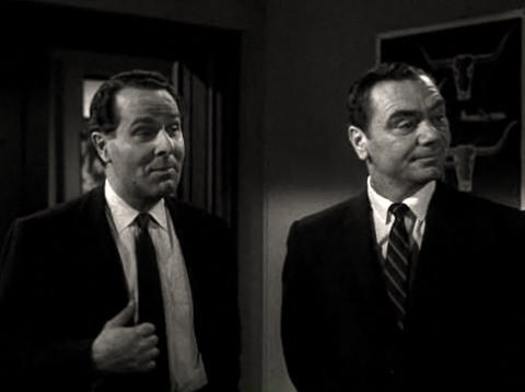 Alexander Scourby & Ernest Borgnine in Man on a String (1960) - trailer (cropped screenshot)